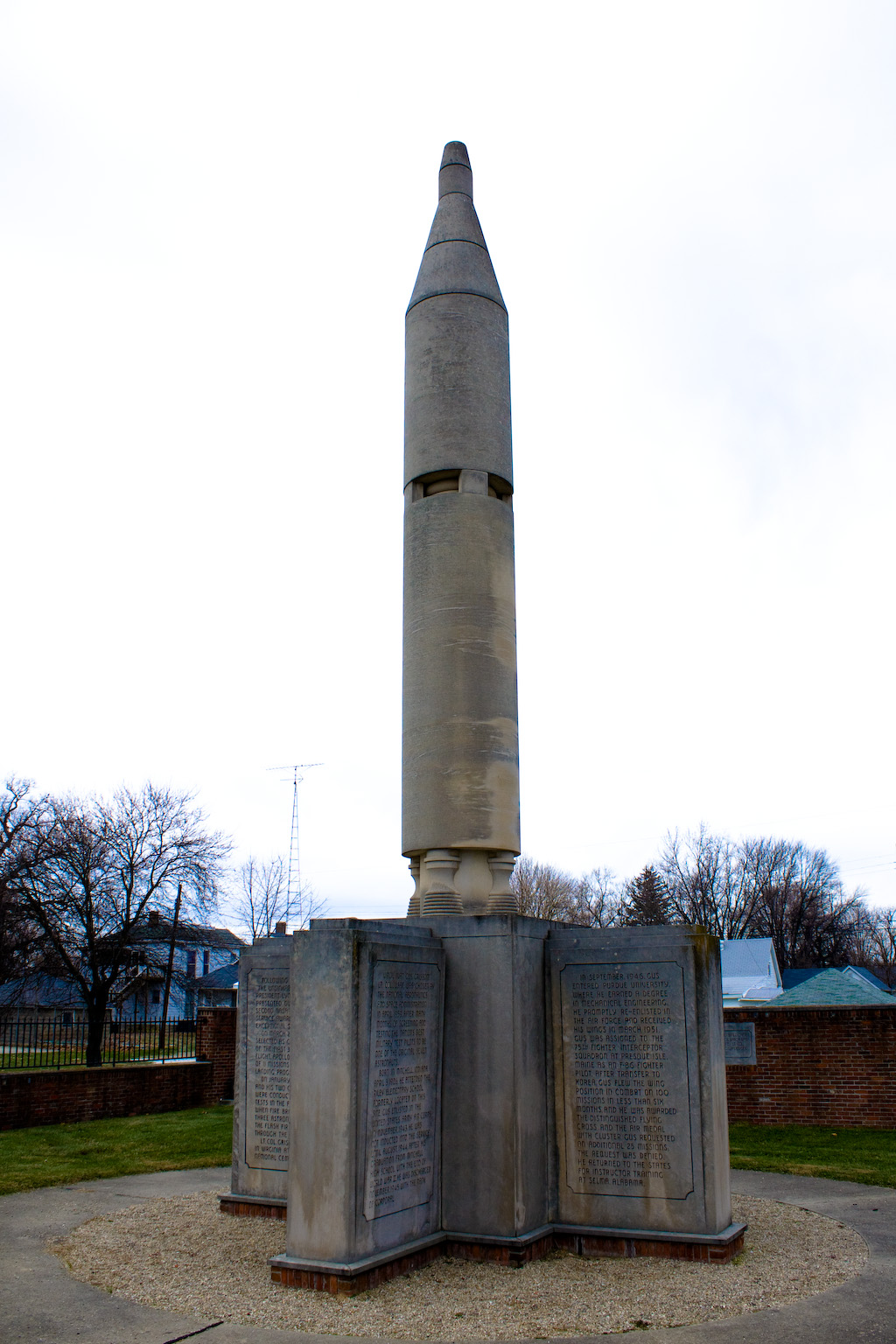 Photo of the Gus Grissom Memorial in Mitchell, Indiana at the corner of S. 6th St. and W. Vine St.